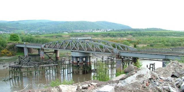 Neath Abbey Swing Bridge The Rhondda and Swansea Bay Railway Company opened its line in 1885, but could extend the line into Swansea until this swing bridge was completed in 1894. I am grateful to the owner of Derwent Construction and his plant operator Martin for their assistance in getting this image. This is one of over 1,450 movable bridges in the British Isles that I have identified for my historical website.